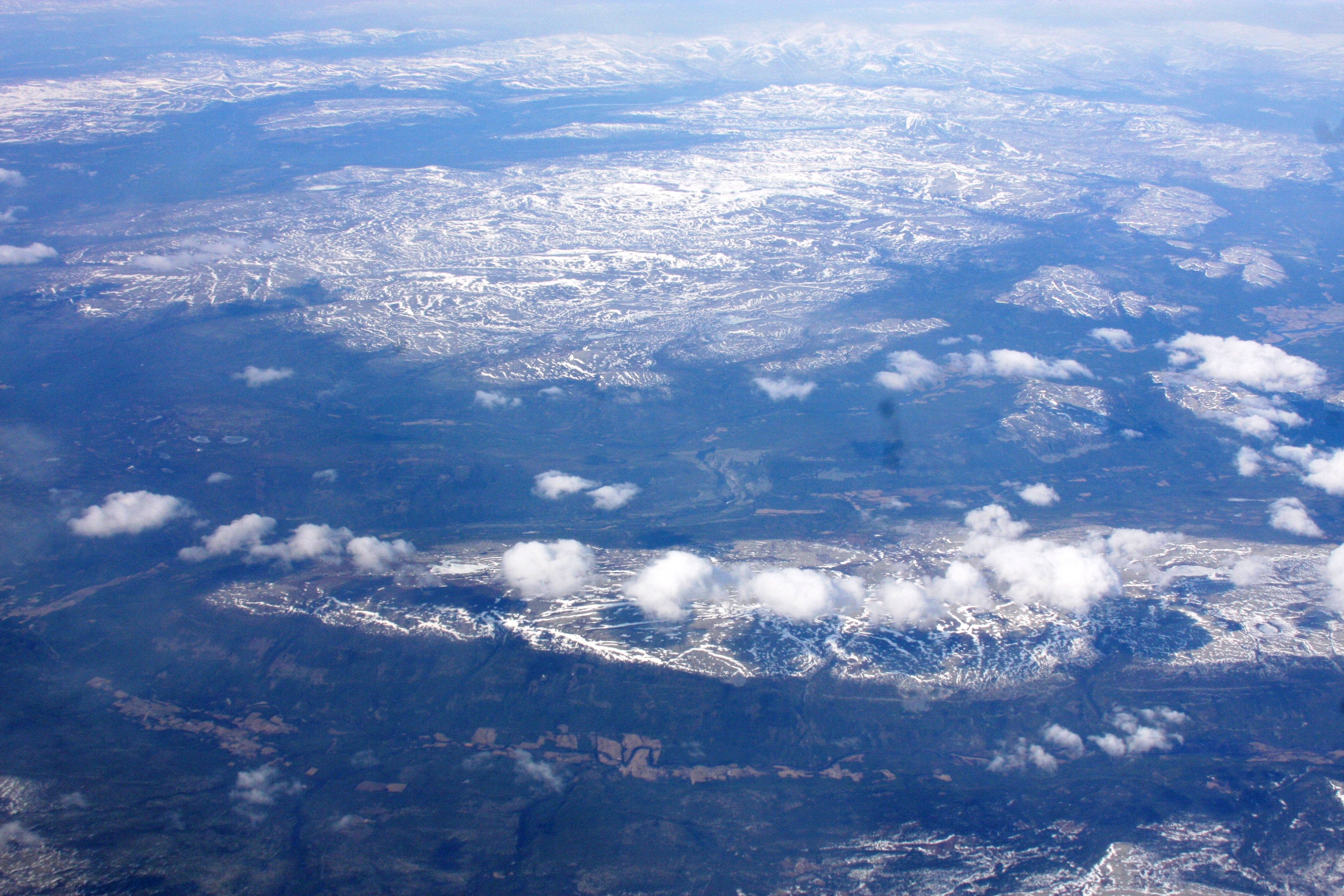 Fonnaasfjellet, a mountain massif 20 x 10 km, in Tynset (Hedmark), Norway